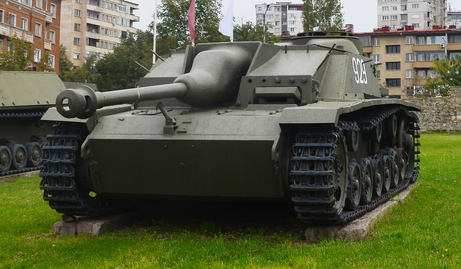 Self-propelled german gun Sturmgeschutz 40, Ausf.G Saukopf in Military Museum, Sofia, Bulgaria